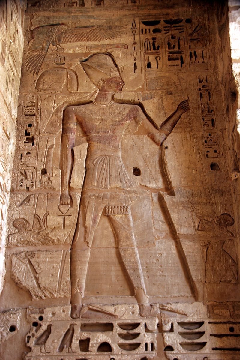 Bas-relief at the mortuary temple of Ramesses III